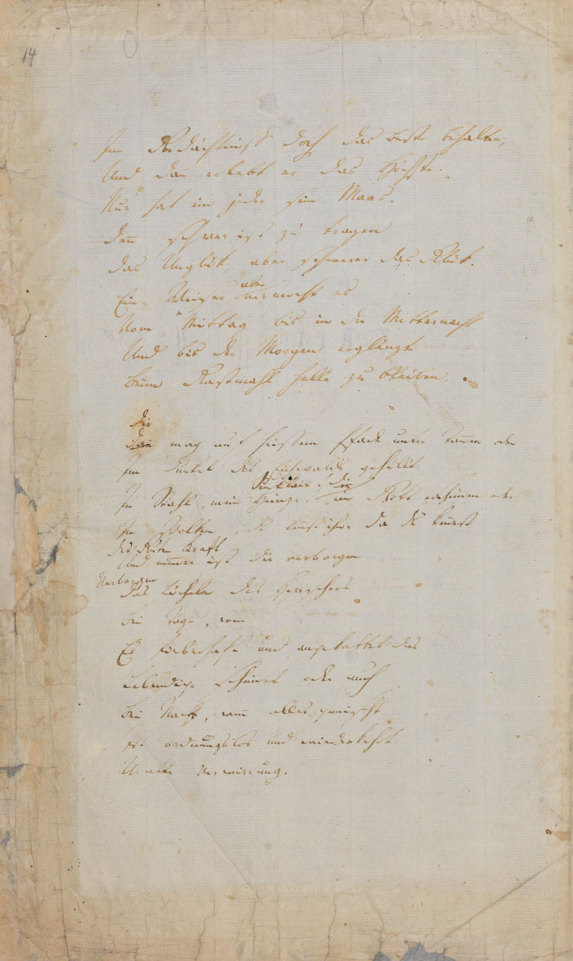 Manuscript of Friedrich Hölderlins poem "Der Rhein", Württembergische Landesbibliothek, page 10